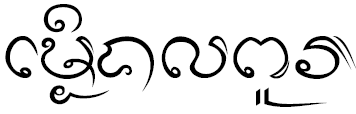 Lanna-Name of District in the North of Thailand